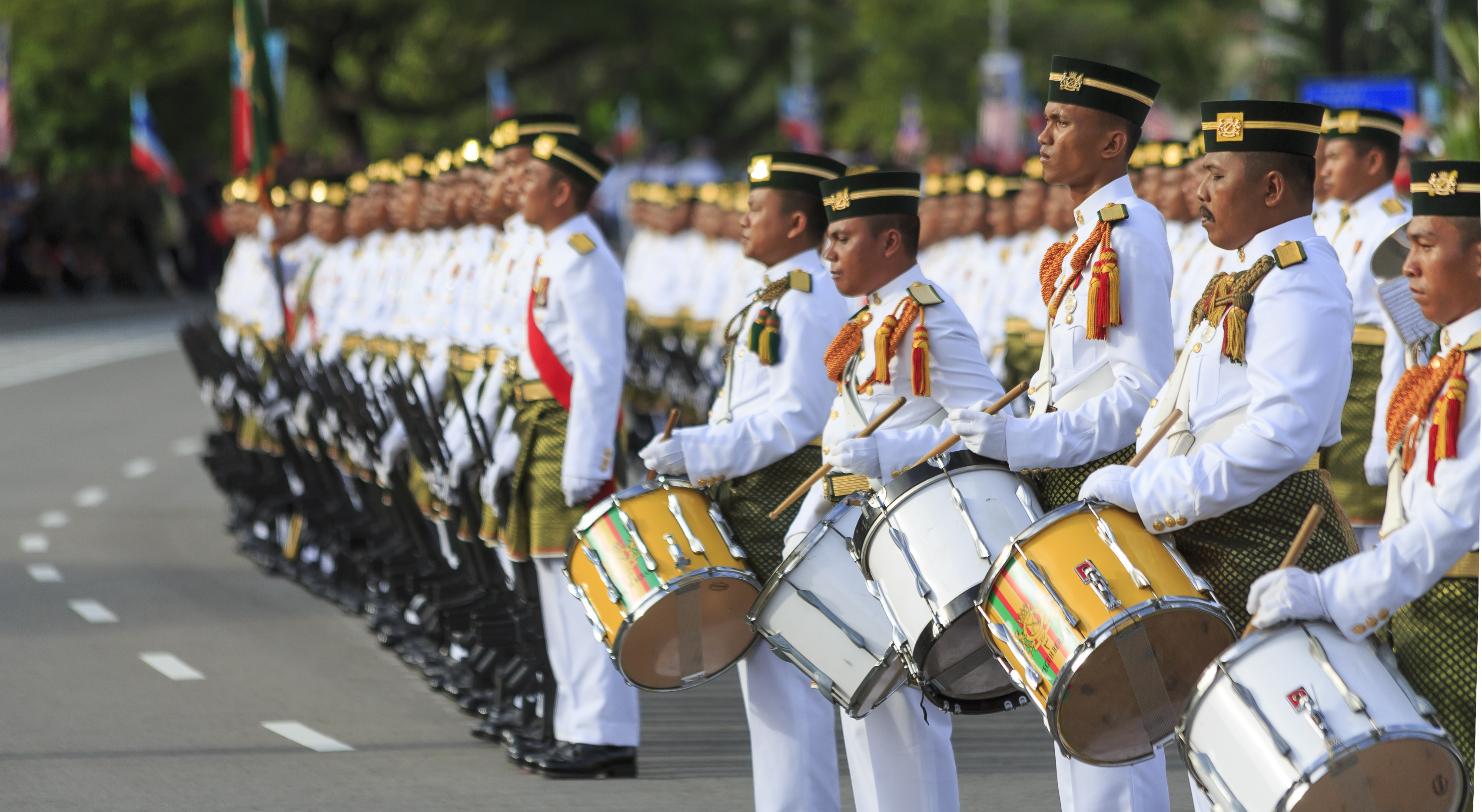 Kota Kinabalu, Sabah, Malaysia: Guard of Honour and marching band of the Royal Malay Regiment during the celebrations of Hari Merdeka 2013 in Likas on August 31, 2013